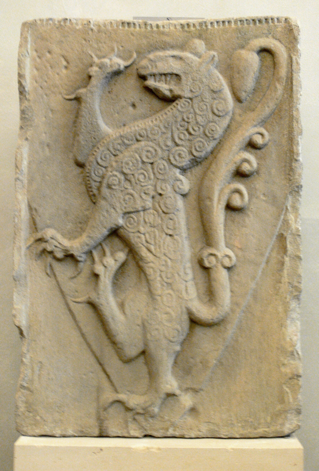 Coat of Arms of the Guelphs; Bavaria c. 1200 (margins probably late 13th century); sandstone; from Steingaden Abbey Bayerisches Nationalmuseum München, Inv. MA 121, erworben 1861